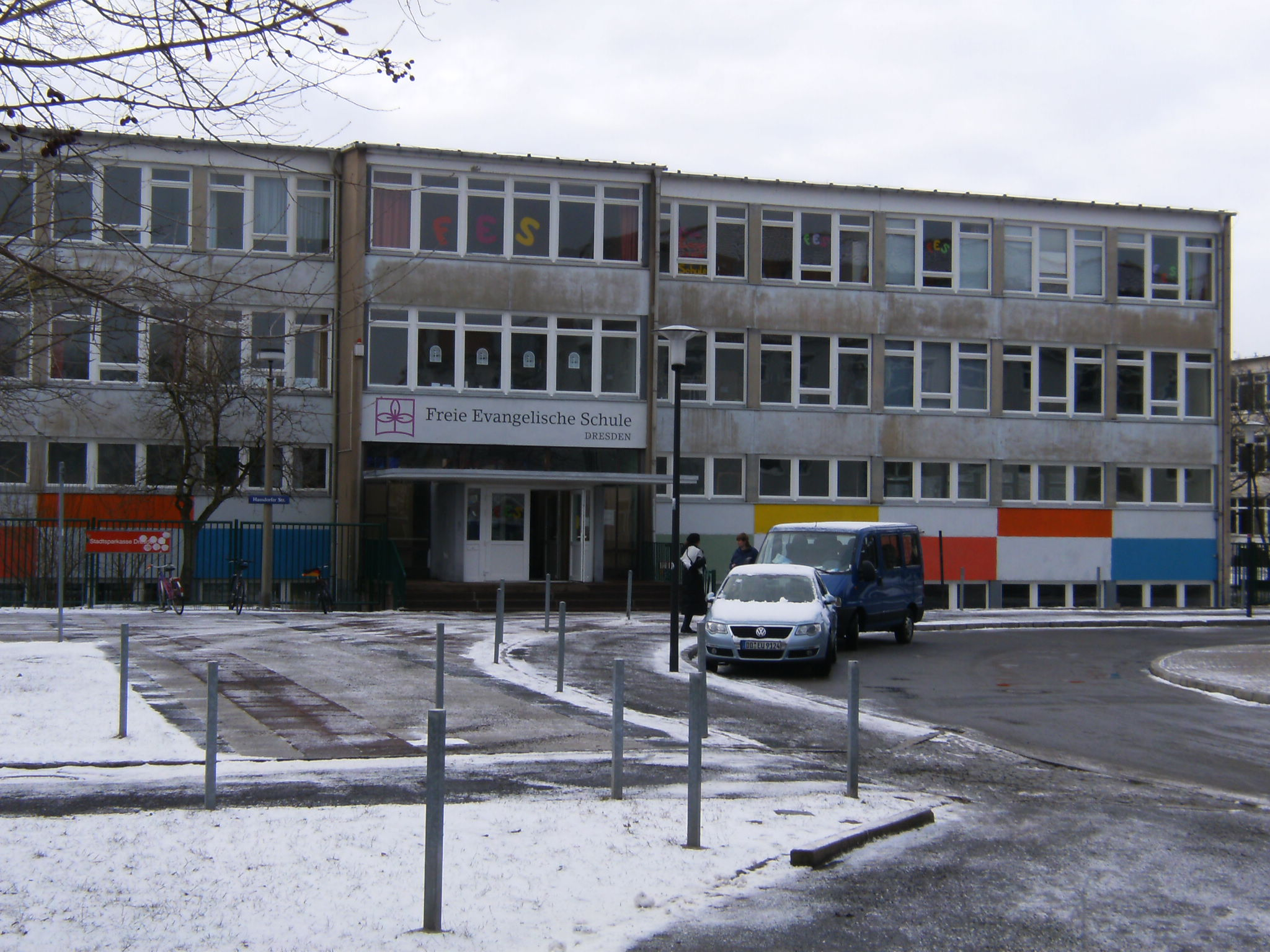 Freie Evangelische Schule Dresden, view from north